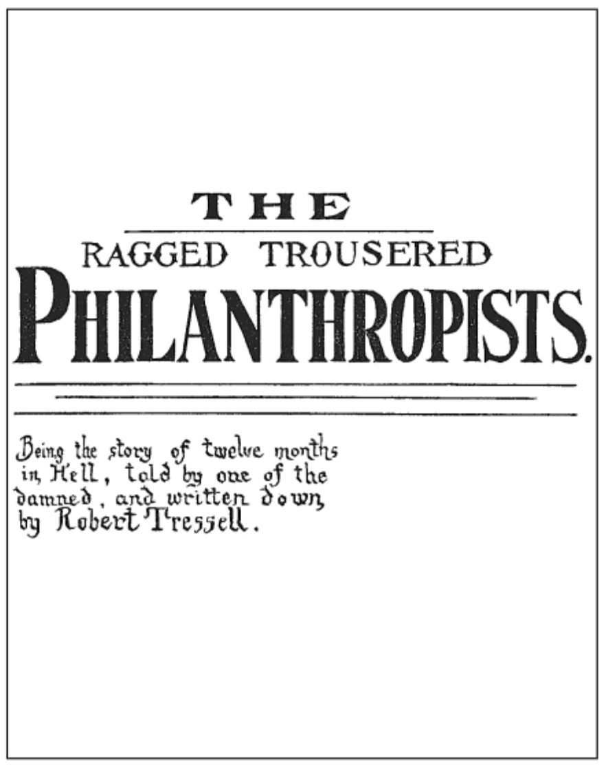 Original title page of The Ragged Trousered Philanthropists by Robert Tressell (died 1911), drawn by the author